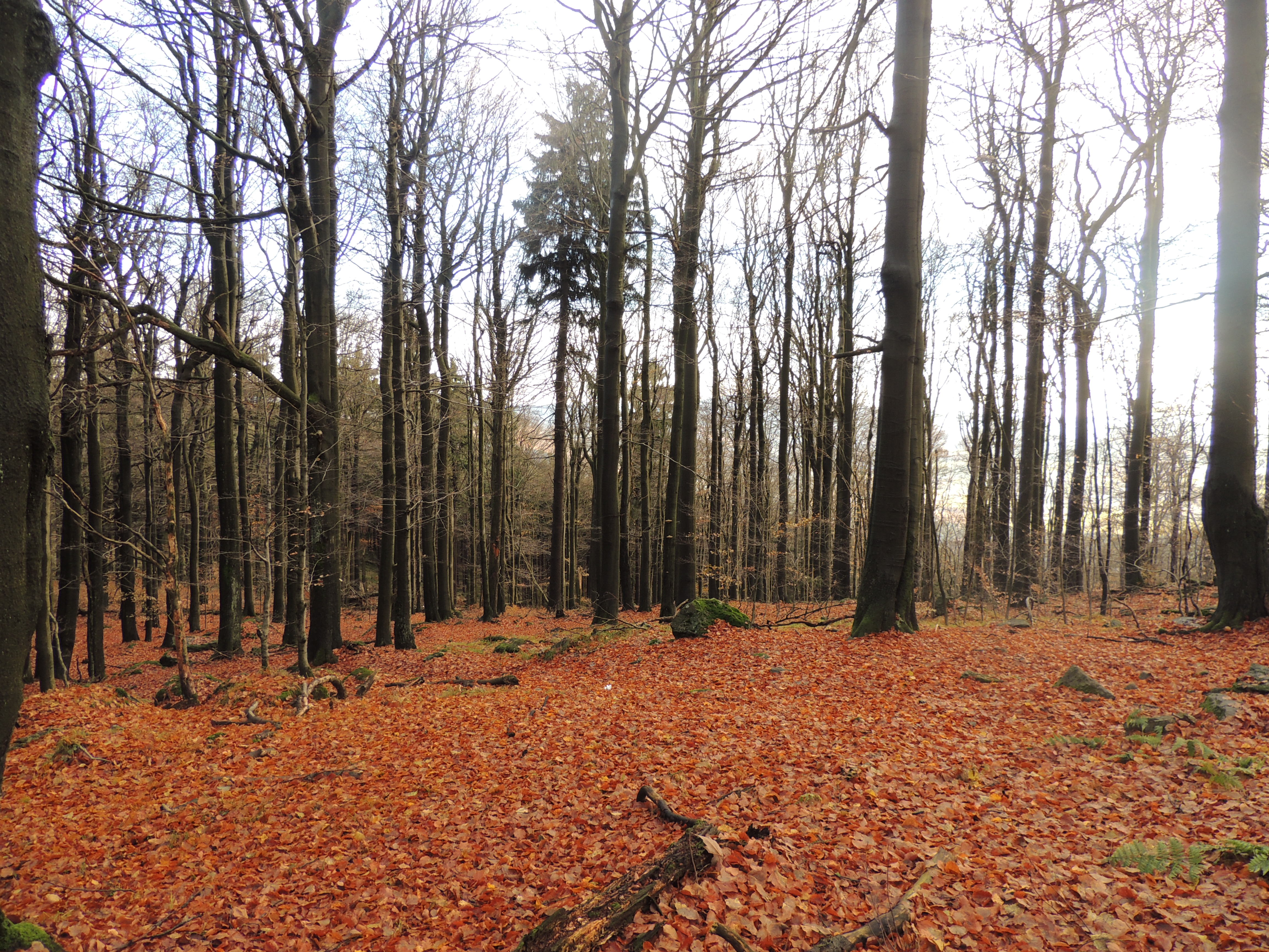 Nature reserve Starý Hirštejn in Domažlice District, Czech Republic